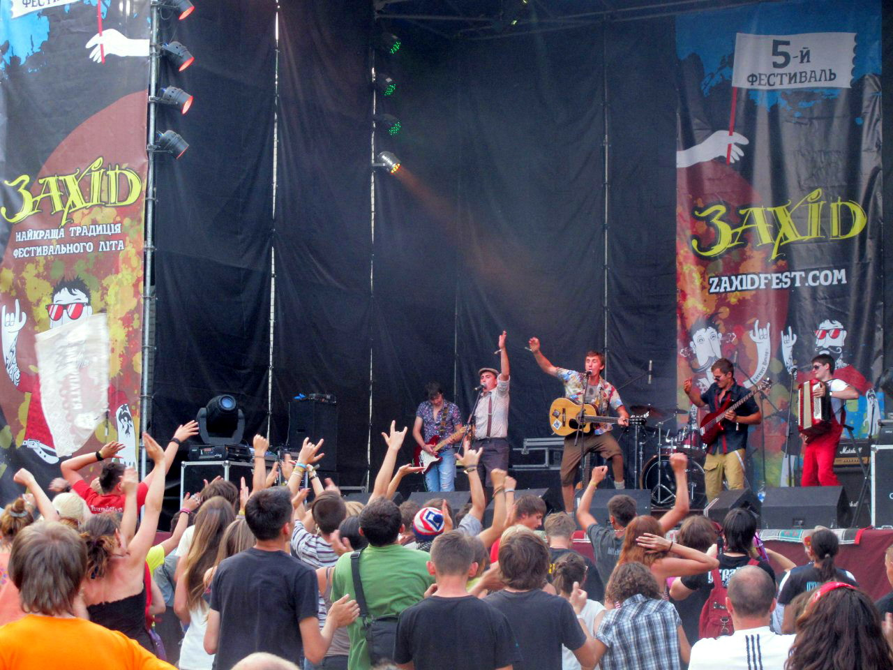 zaxidfest2013